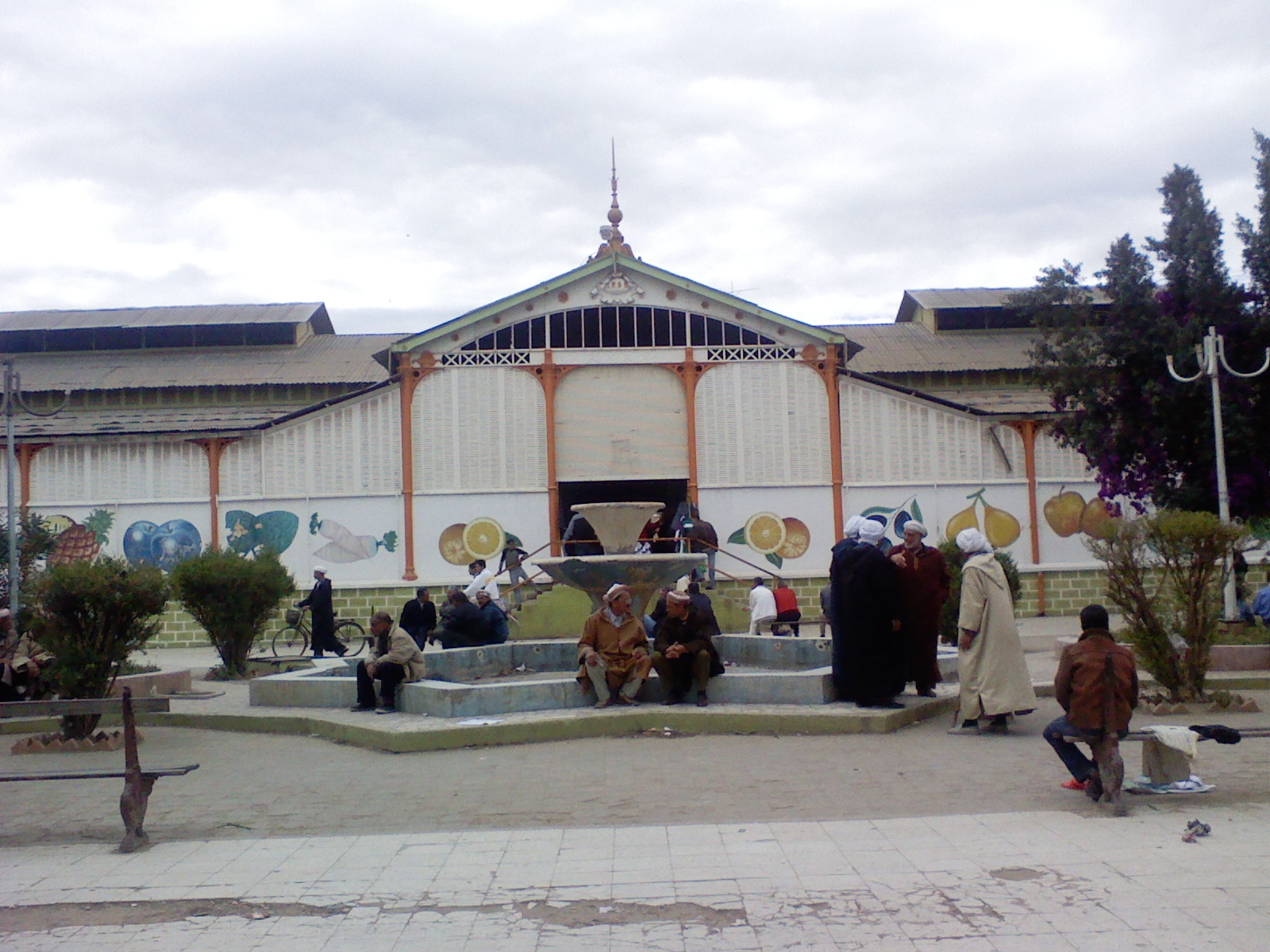 Mohammadia, Mascara Ville en Algérie